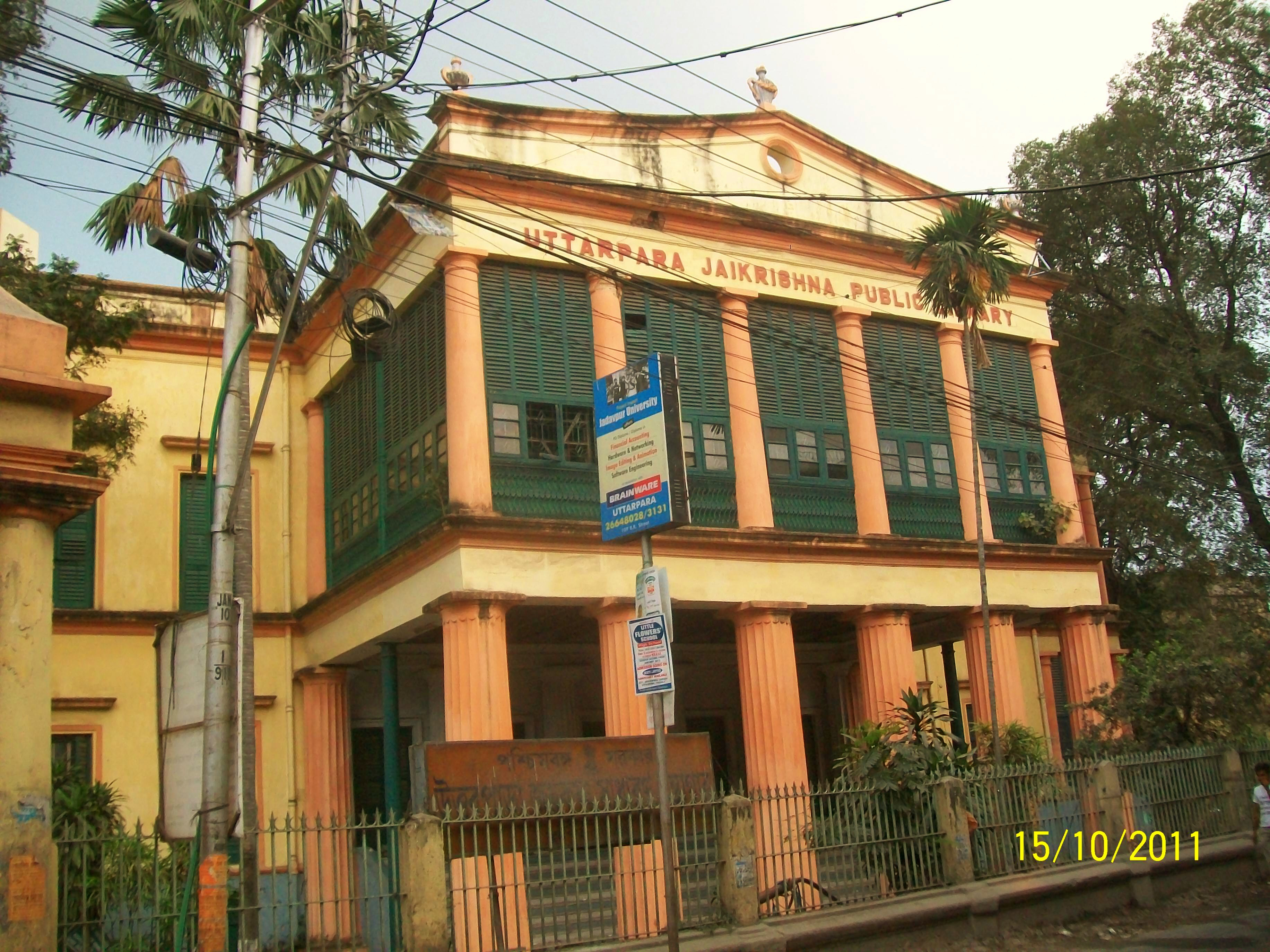 Uttarpara Library, front view